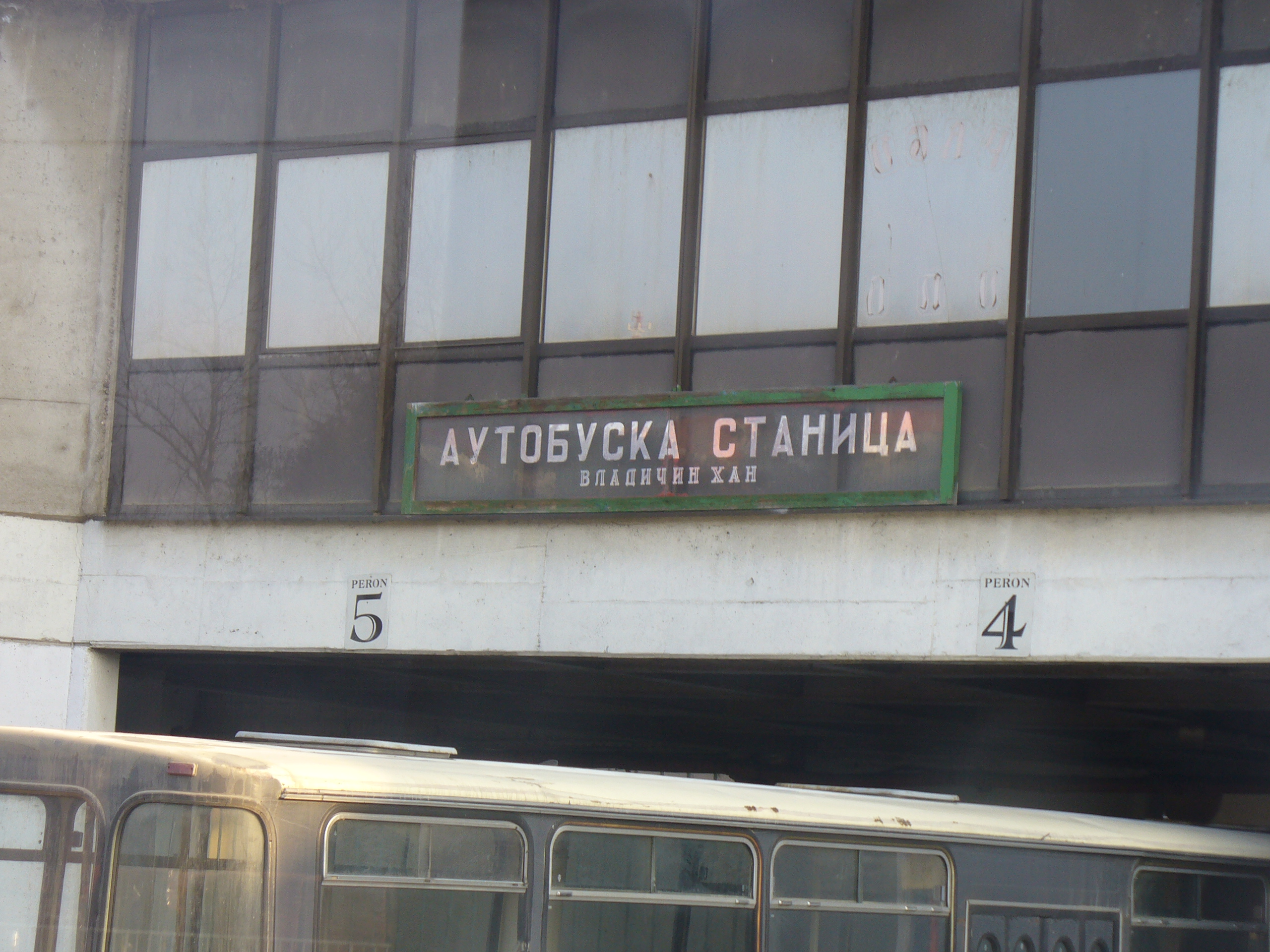 Bus station in Vladičin Han